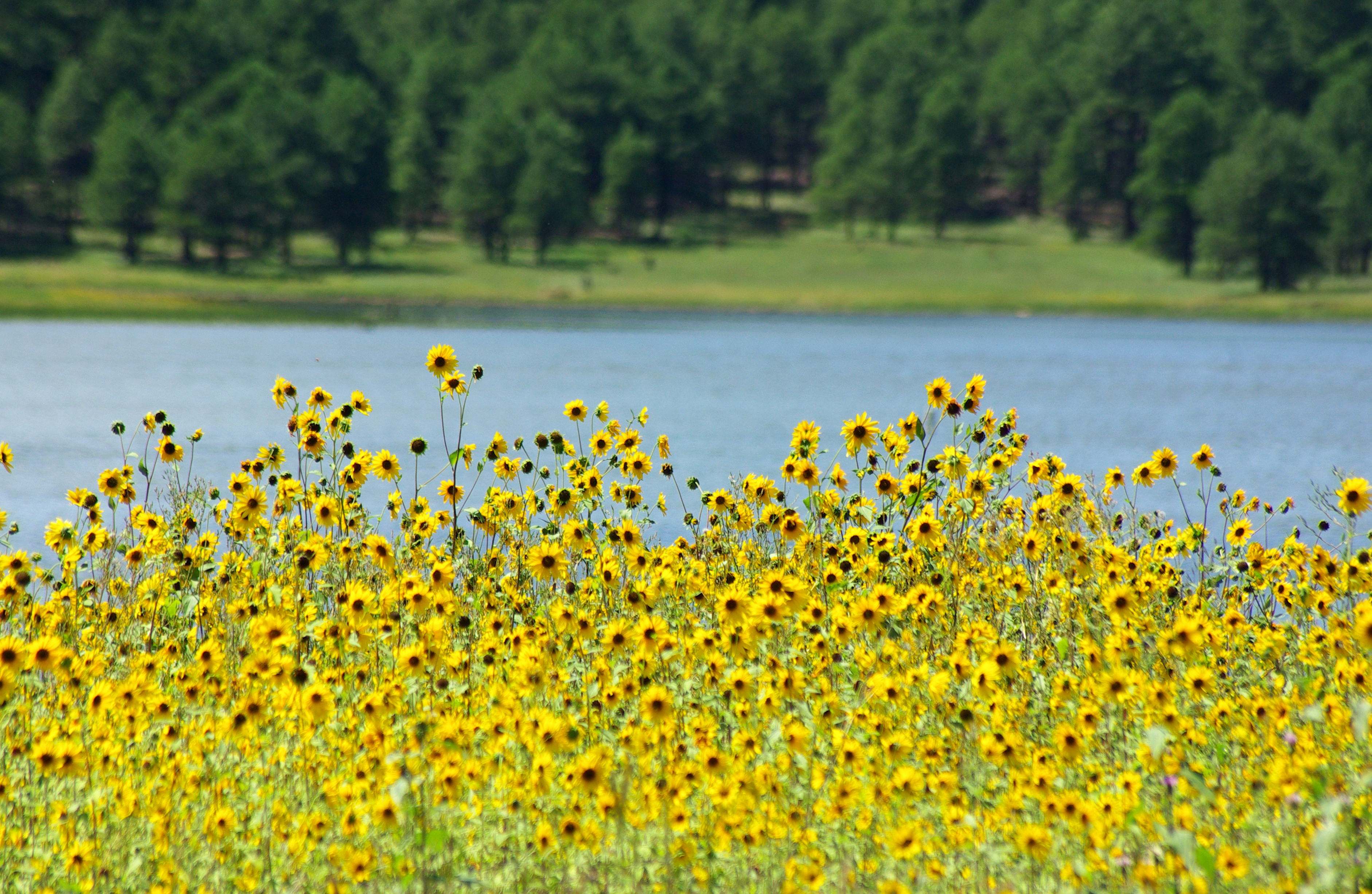 Sunflowers along the hillside that flanks the shores of Lake Mary. Taken 8-22-10 by Gary Garner. Credit: Gary Garner